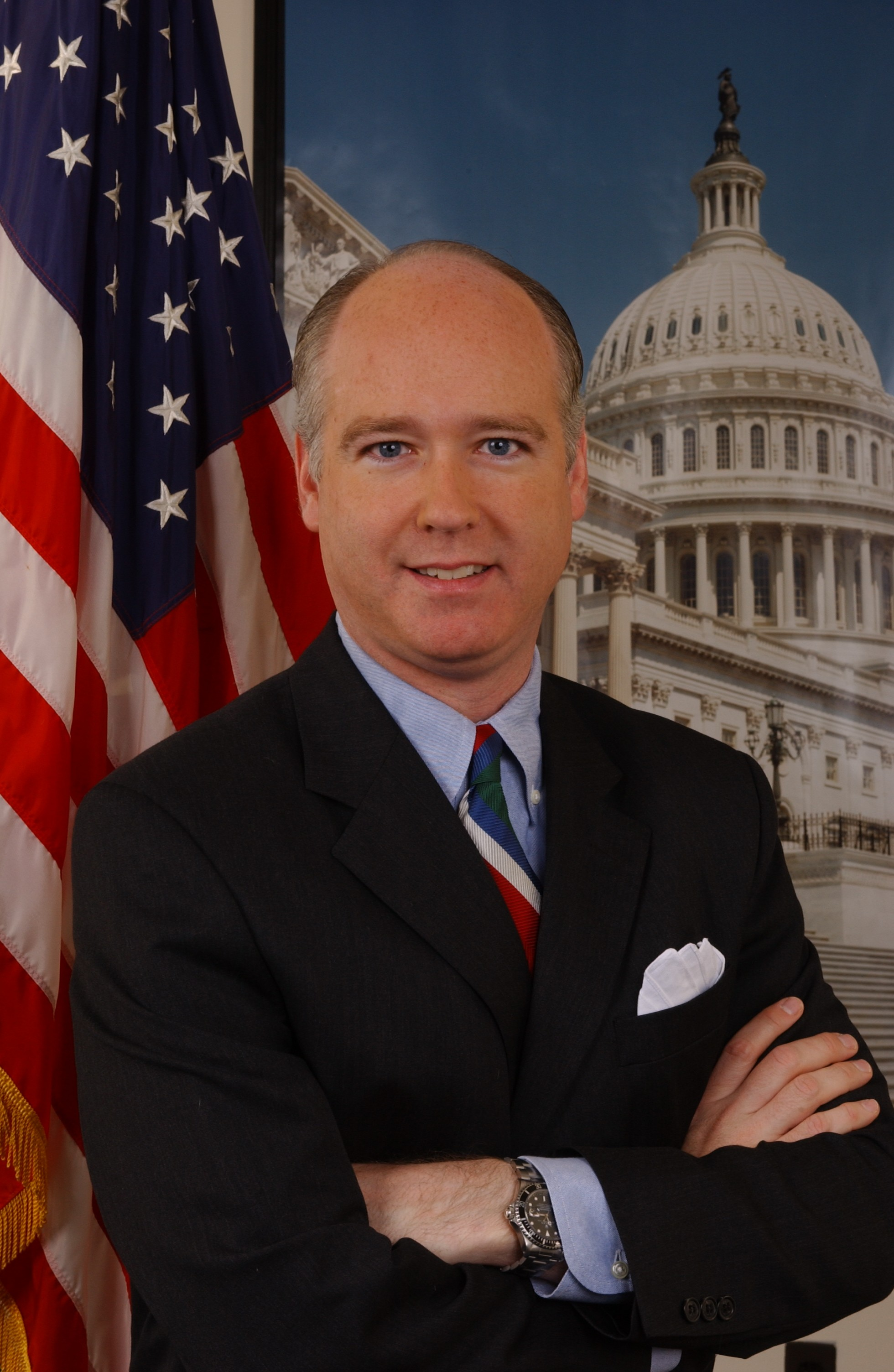 Robert Aderholt, member of the United States House of Representatives.